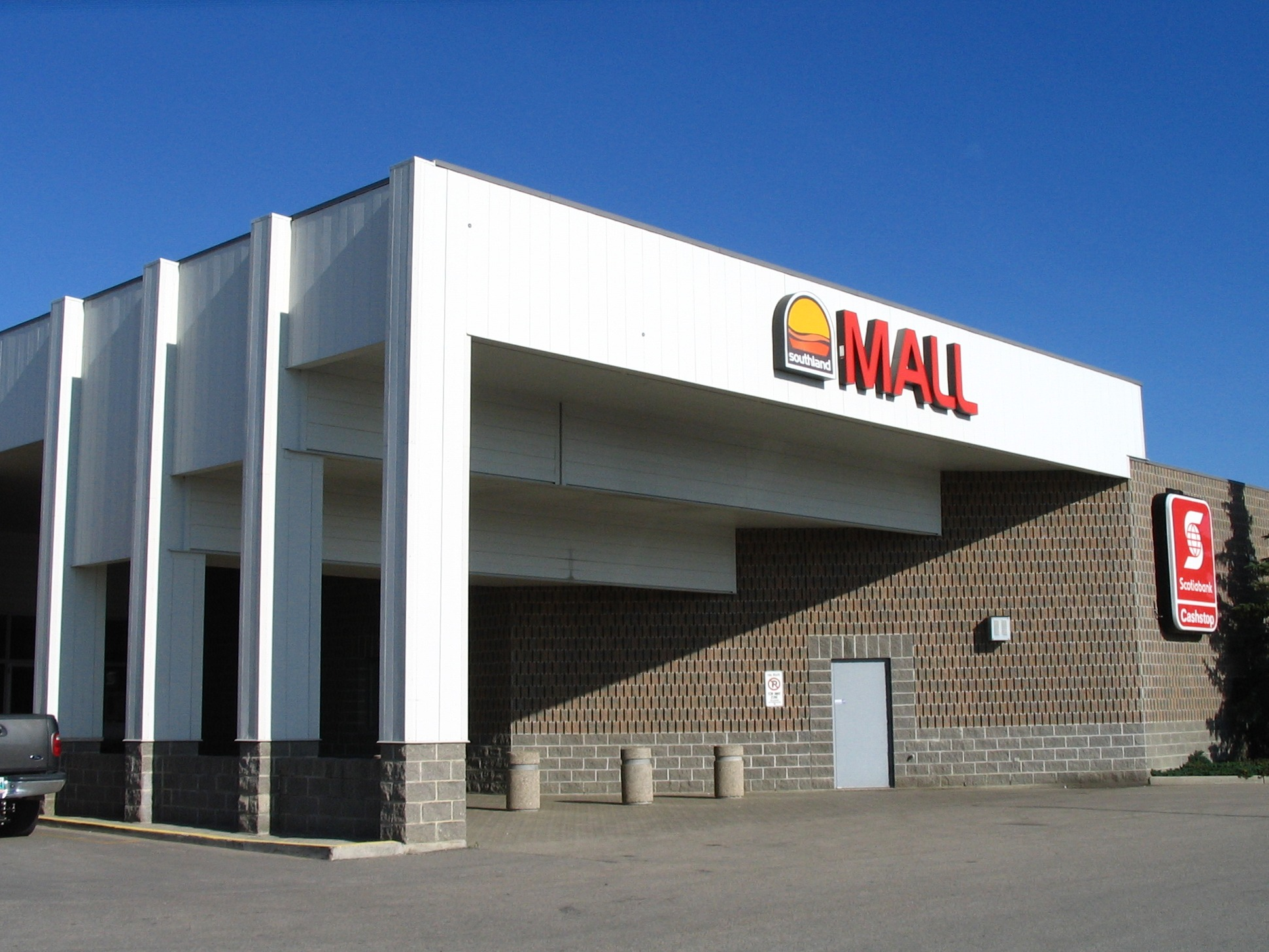 Southland Mall in Winkler, Manitoba